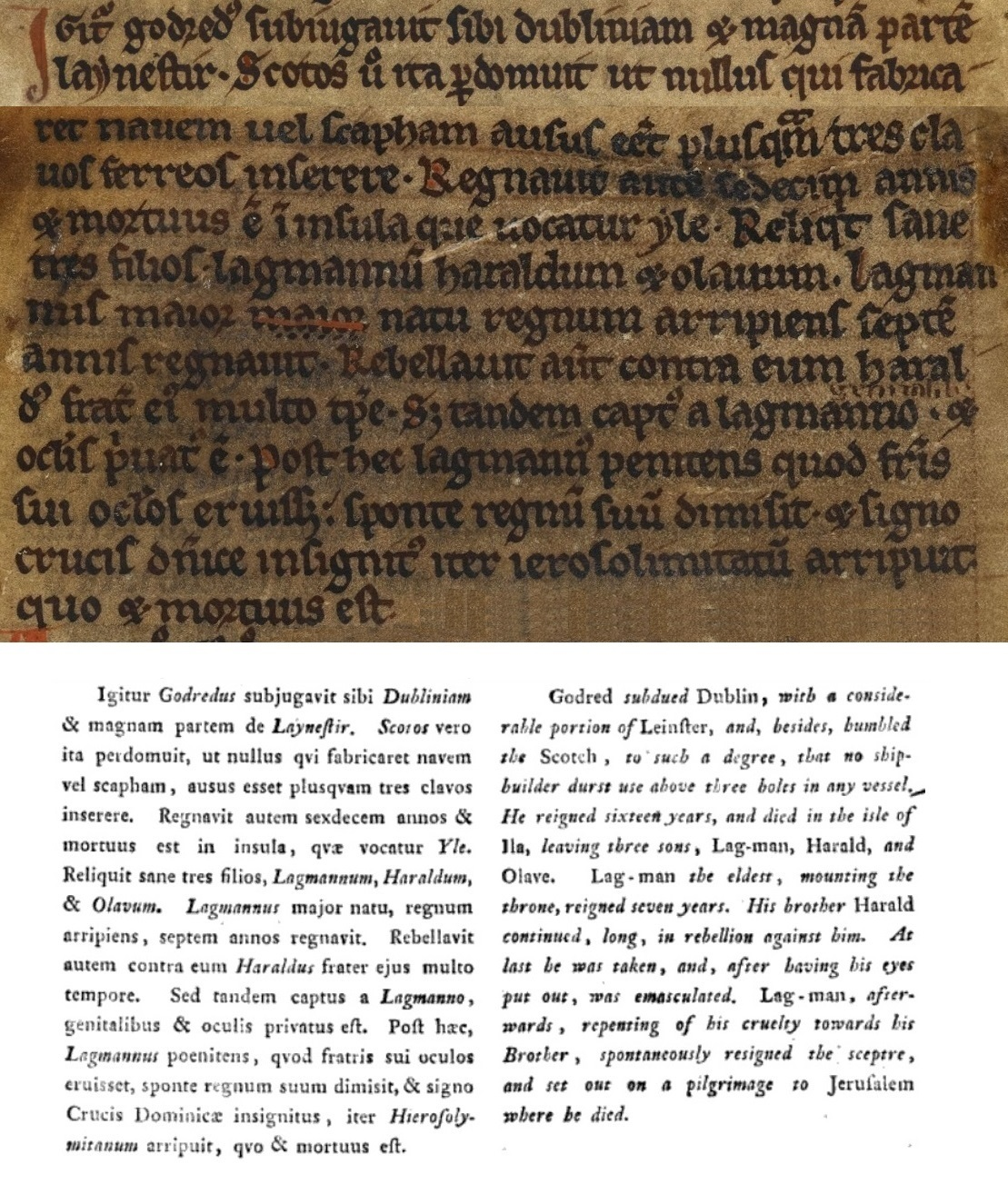 The life of Lagman in the Chronicles of Mann, with a 1786 transcription and translation